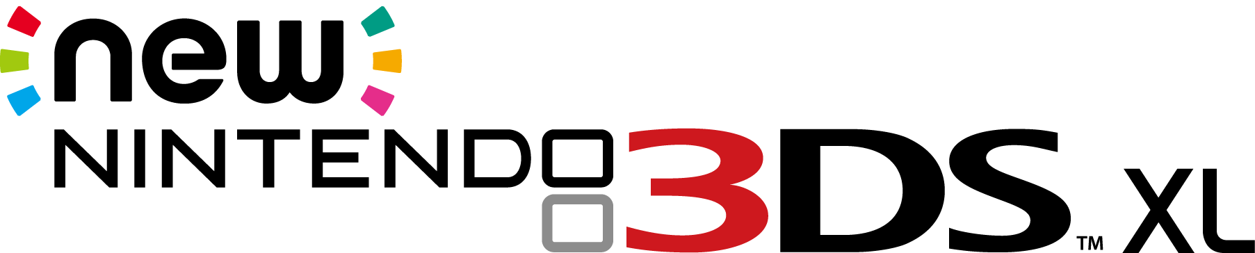 New Nintendo 3DS XL logo.